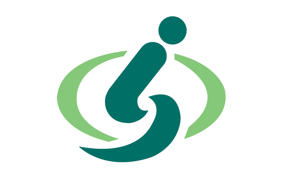 Flag of Saitama, Saitama